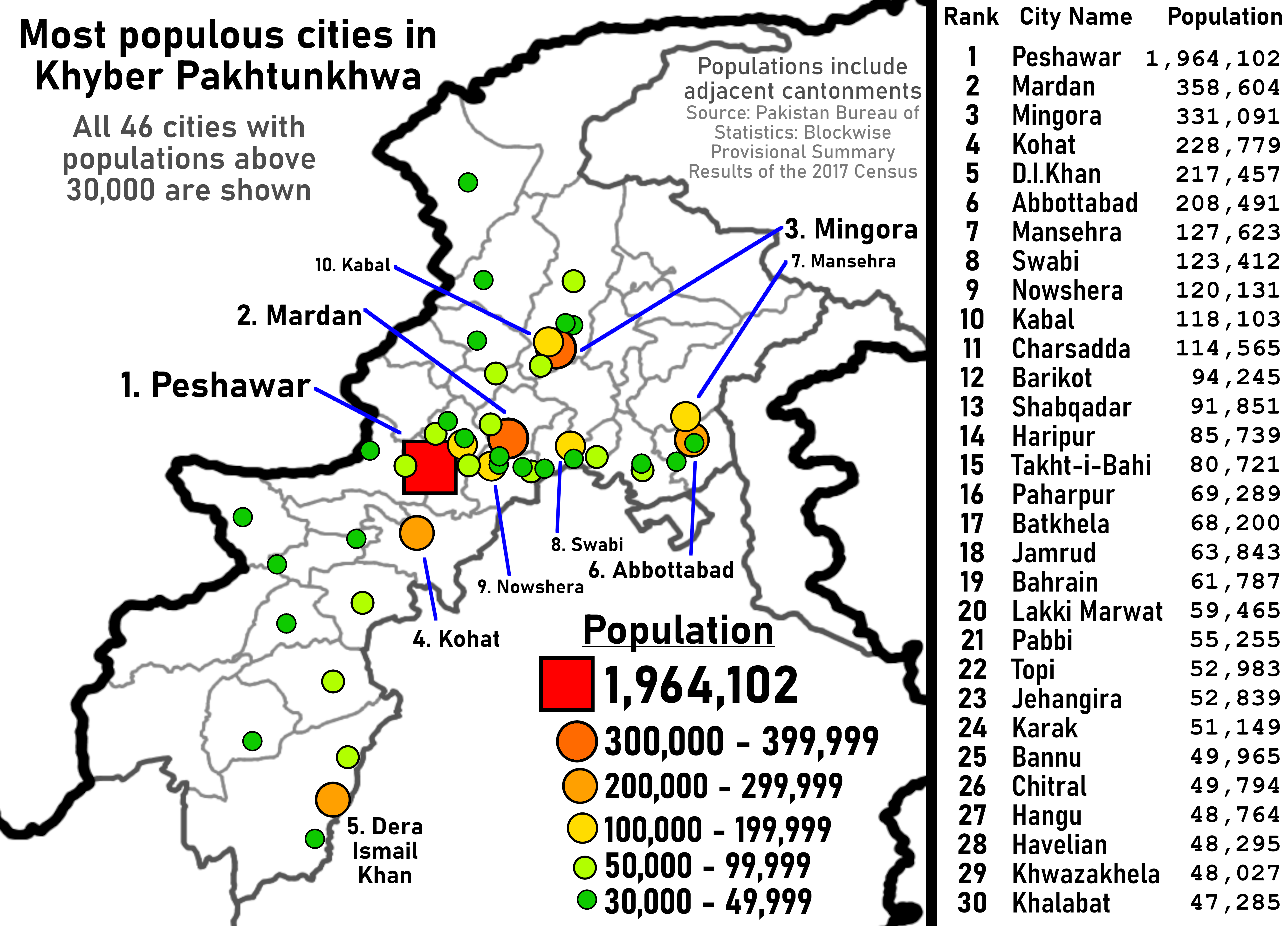 This is a map showing all of the cities in the province of Khyber Pakhtunkhwa, Pakistan with a population over 30,000 as of the 2017 census' provisional results. It was created in Gimp and data was used from the Pakistan Bureau of Statistics. A detailed analysis and look at the data and sources can be found on the article List of cities in Khyber Pakhtunkhwa by population.A similar map covering all of Pakistan can be found here.